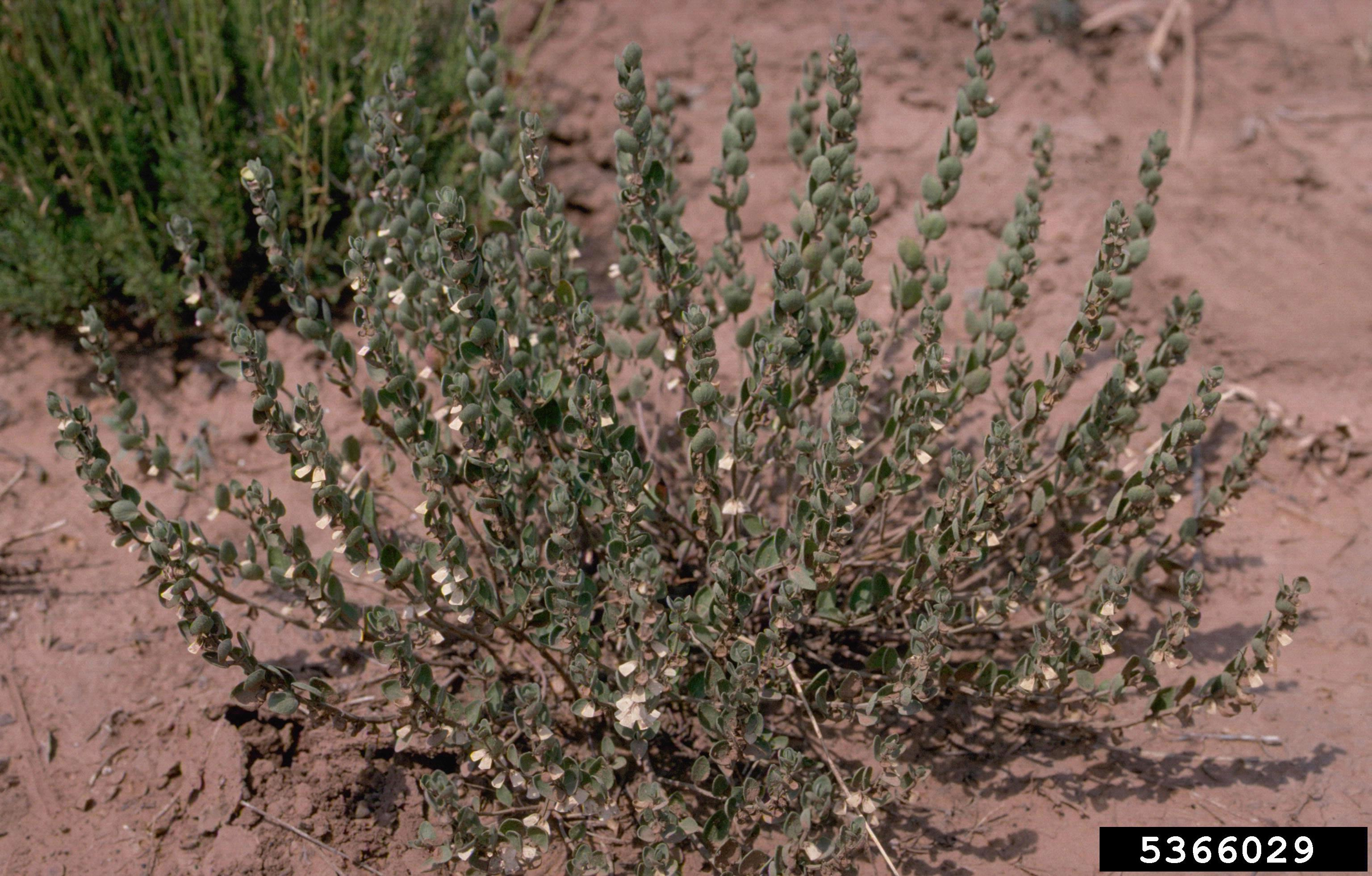 Scutellaria multiglandulosa, cultivated, USA